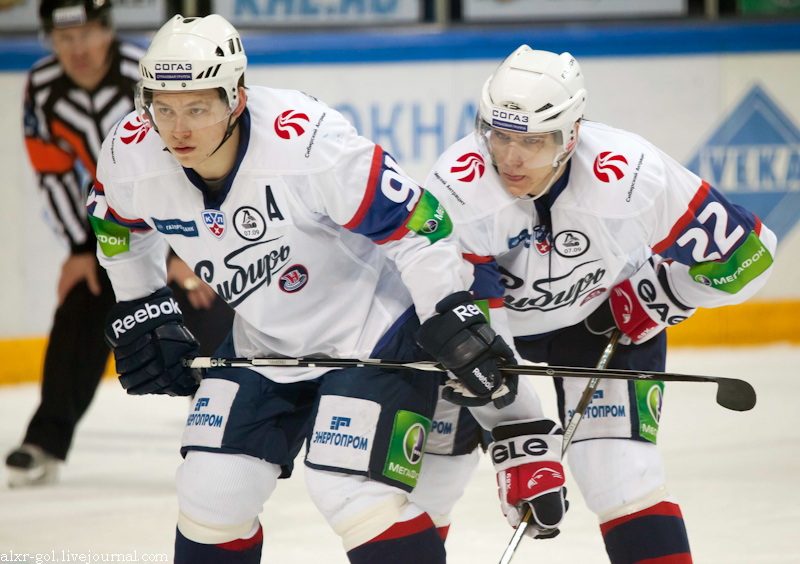 HC Sibir Novosibirsk players Vladimir Tarasenko (at left) and Nikita Zaitsev during KHL game against Amur Khabarovsk on December 4, 2011.